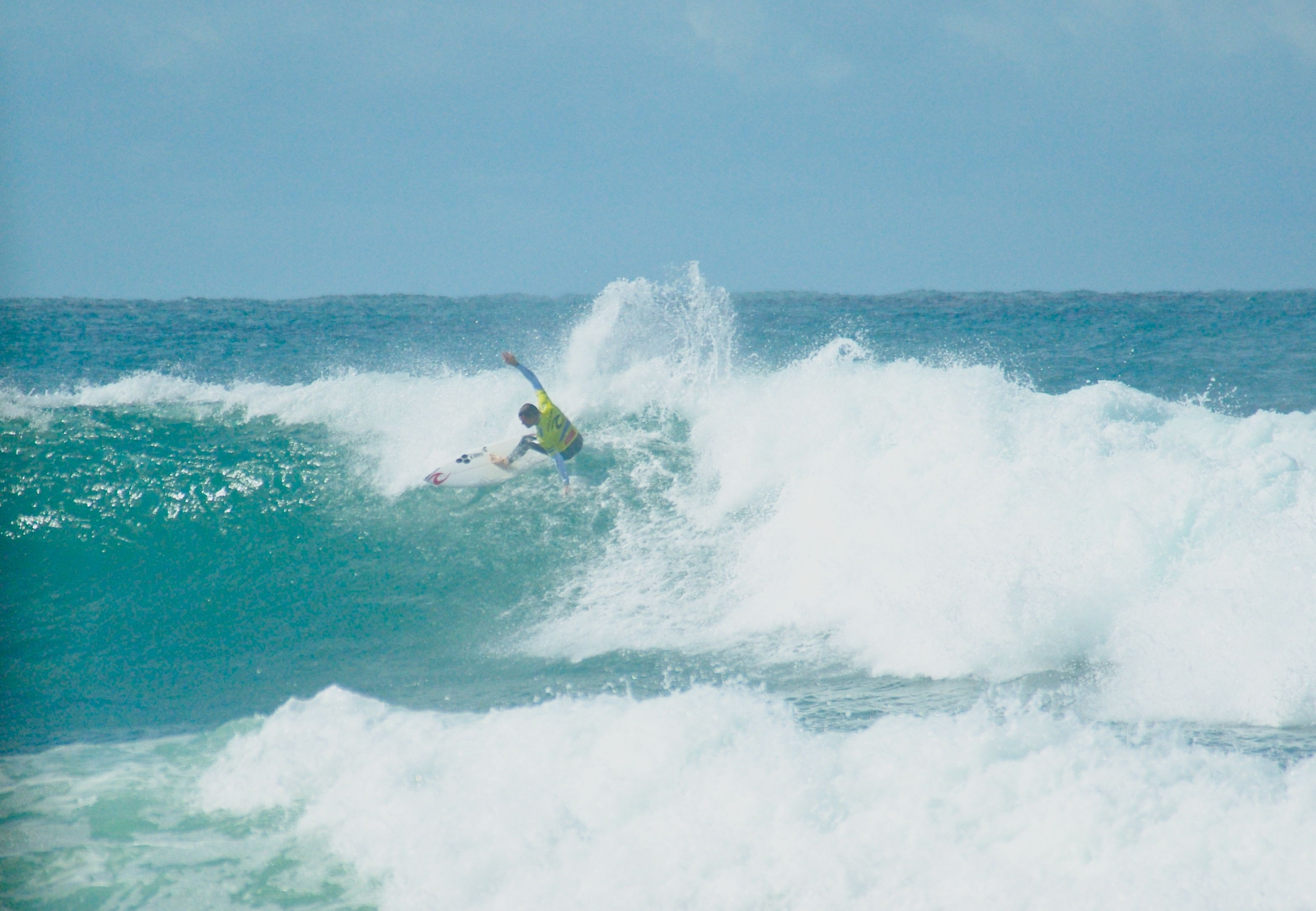 Unknown competitor at Rip Curl Pro competition at Bells Beach, Victoria, Easter 2009